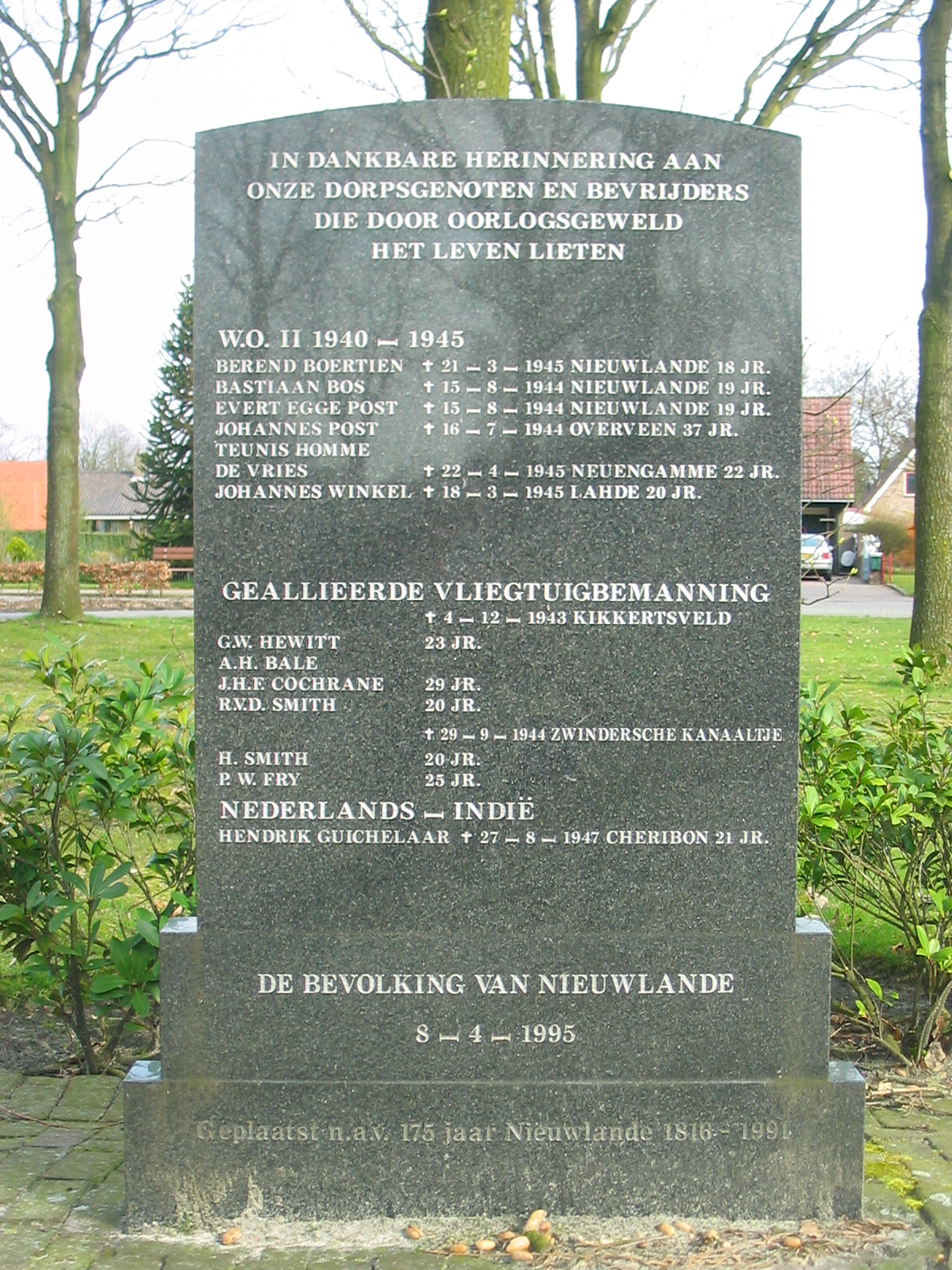 World War II Memorial Nieuwlande. The memorial was erected on 8 april 1995 for the village occupants and two allied airplanes that crashed nearby the village: one on 4 december 1943 on Kikkertsveld and another on 29 september 1944. Also the famous verzetsstrijder Johannes Post is mentioned.